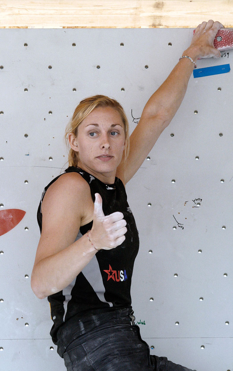 Alex Johnson during the semi-finals at the IFSC Boulder Worldcup Vienna 2010.